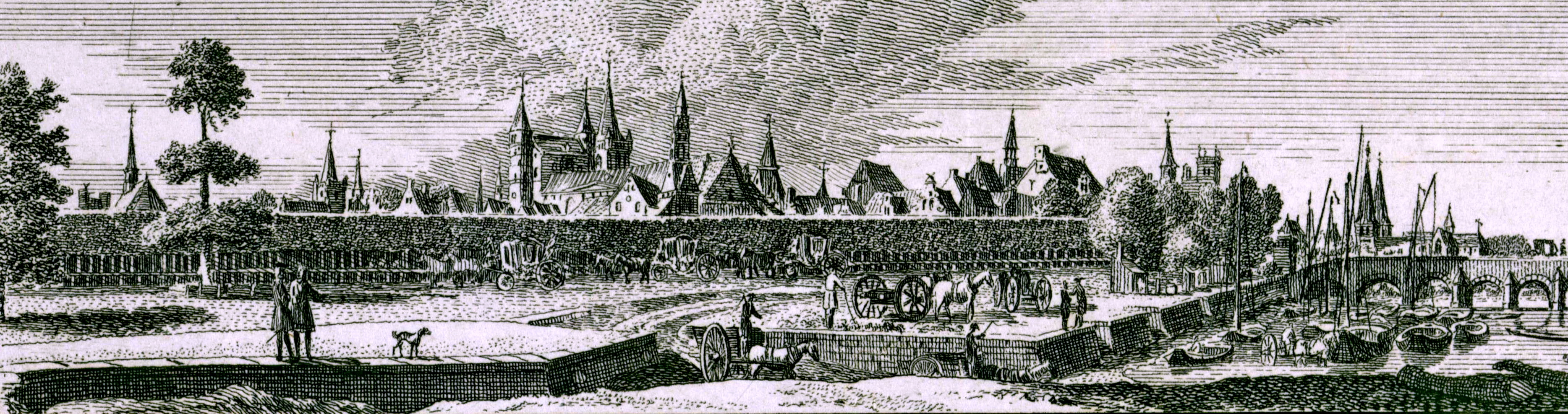 Maastricht, the Netherlands. View of De Boompjes, an early city park along the river Meuse near Onze-Lieve-Vrouwewal. Original drawing by Jan de Beijer, 1740. Engraving by Hendrik Spilman, printed in 1748. Collection Rijksmuseum, Amsterdam.